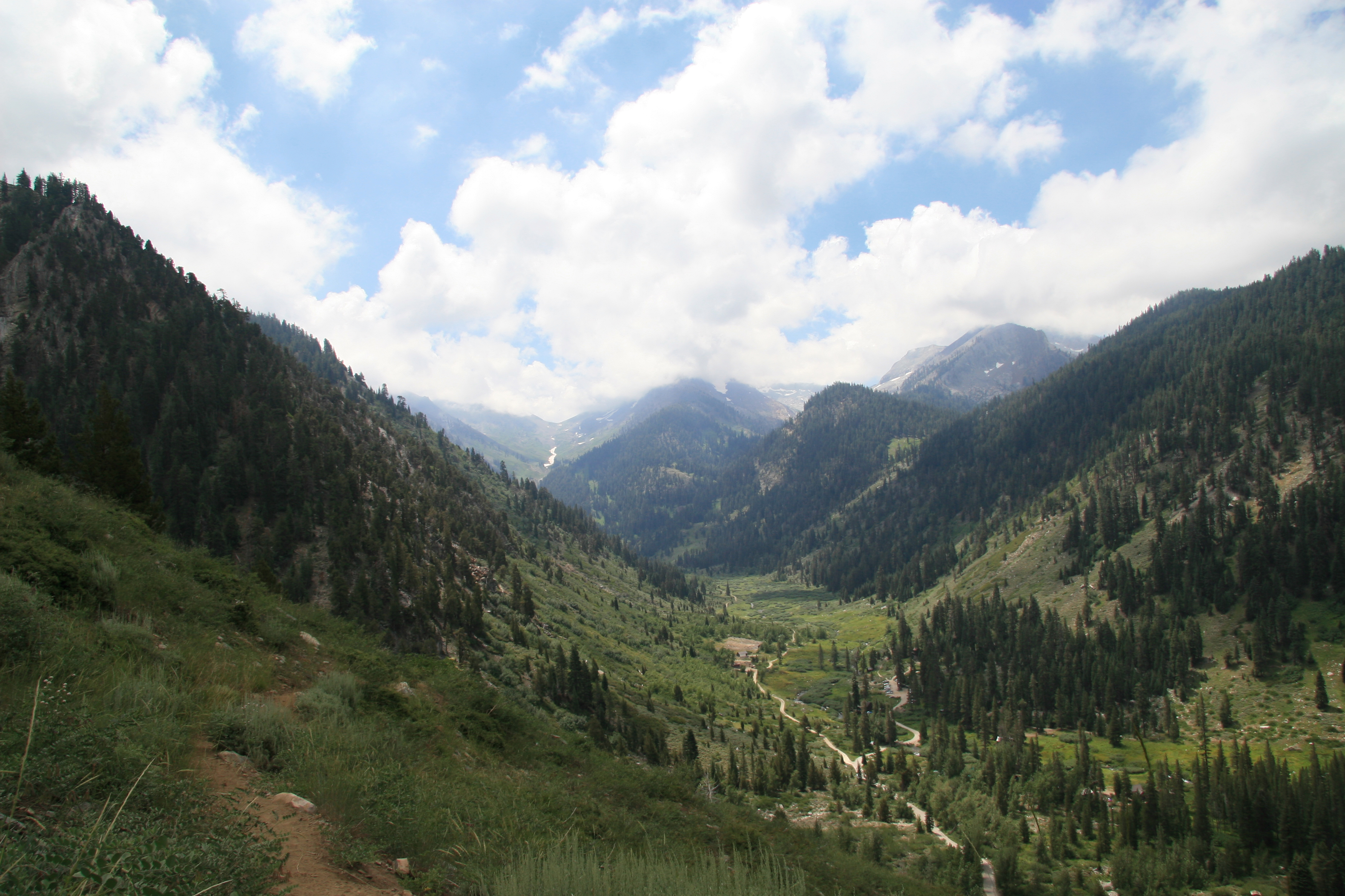 View South, down into Mineral King Valley from the Timber Gap Trail, Sequoia National Park.